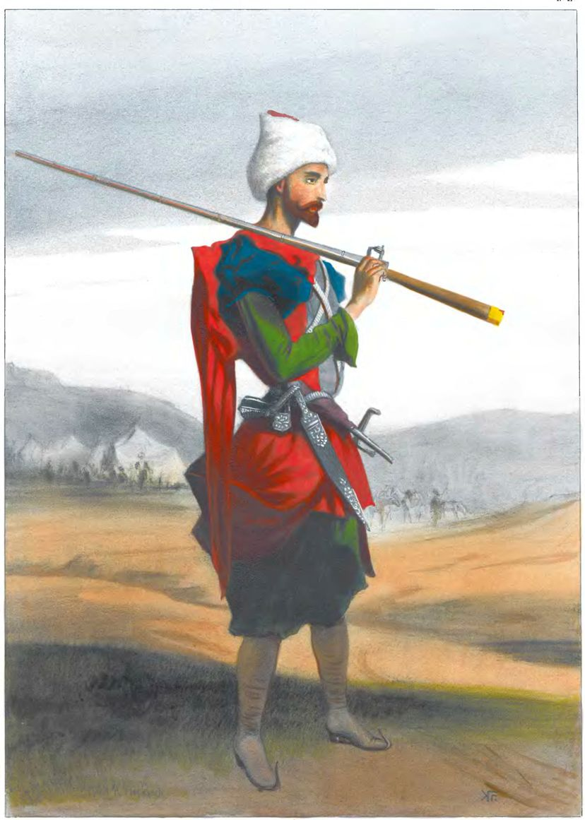 Melice d'Akhty.